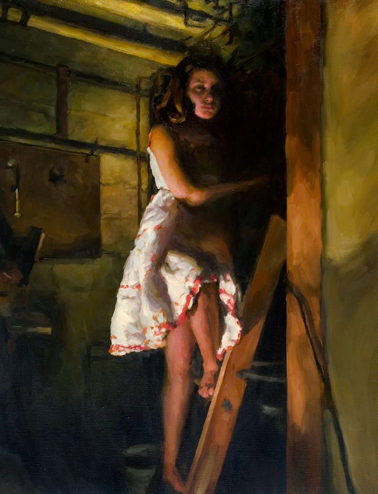 Exploring The Basement by Stephanie Deshpande